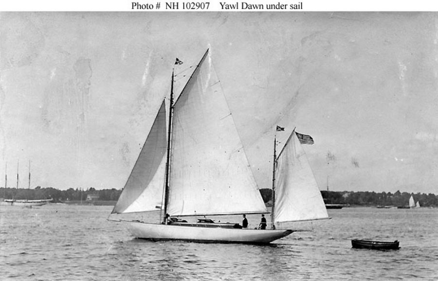 Private yawl Dawn, considered for United States Navy service as patrol vessel USS Dawn (SP-37) but never commissioned into naval service